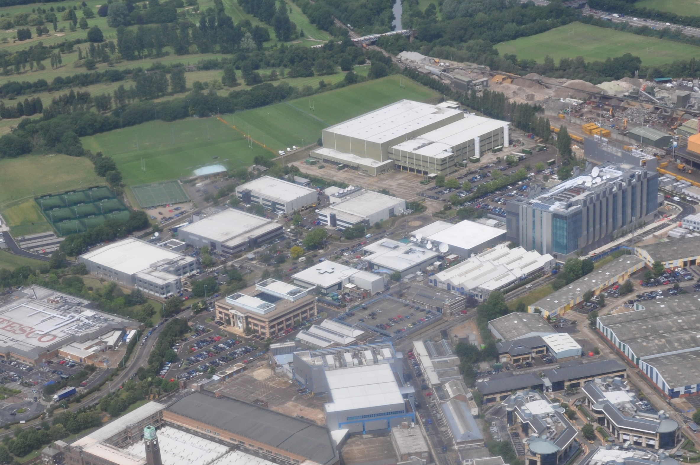 Aerial photograph of Syan Lane, Isleworth, London Borough of Hounslow